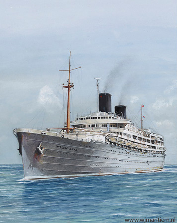 Willem Ruys (Rotterdamsche Lloyd) at sea. Painting by Dutch Maritime artist W.J.Hoendervanger.